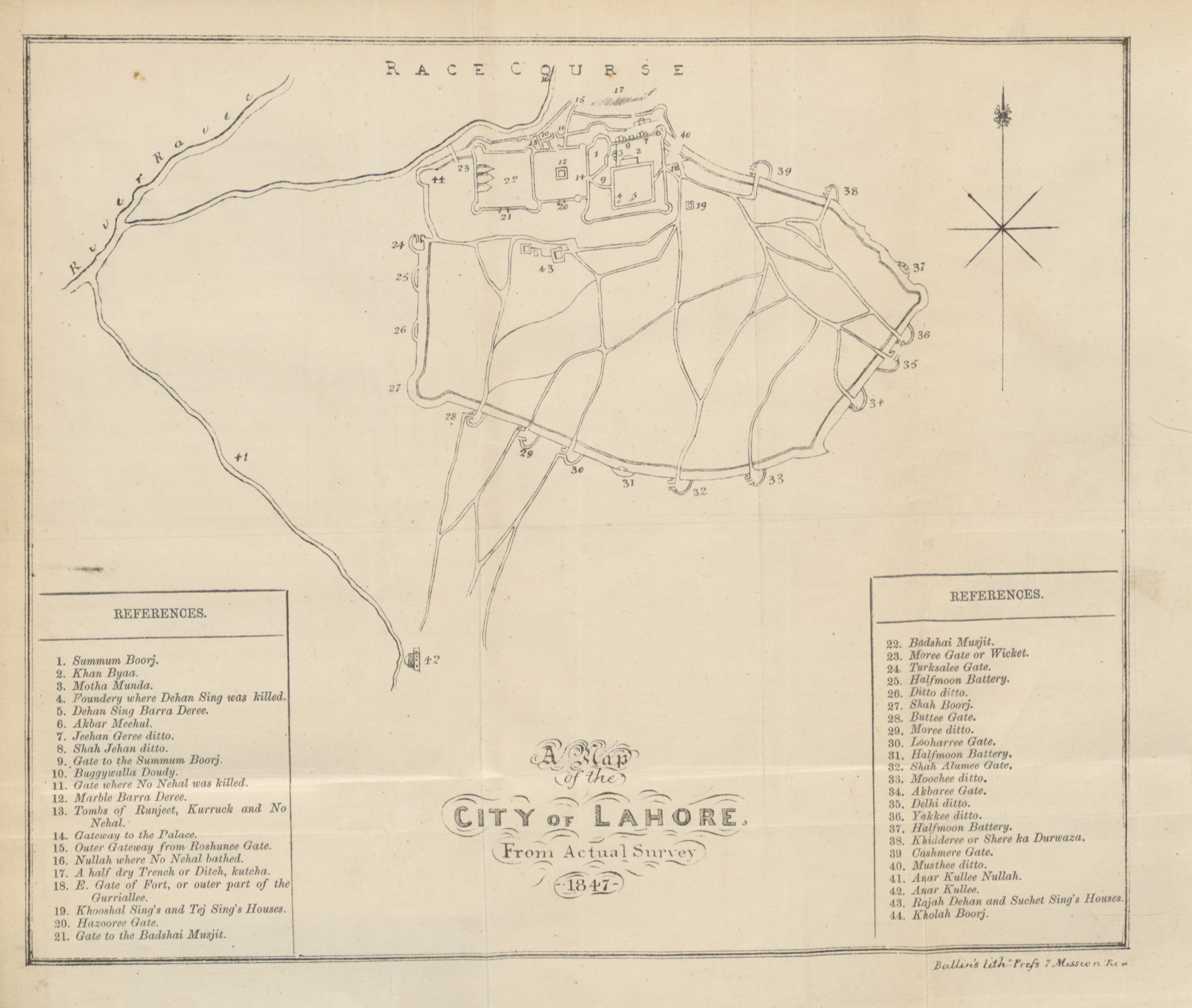 View this map on the BL Georeferencer service. Image taken from: Title: "A History of the reigning family of Lahore, with some account of the Jummoo Rajahs, the Seik Soldiers and their Sirdars. With notes on Malcolm, Prinsep, Lawrence, Steinbach, M'Gregor and the Calcutta Review" Author: SMYTH, George Monro Carmichael. Shelfmark: "British Library HMNTS 9055.d.24.", "British Library OC T 35707" Page: 39 Place of Publishing: Calcutta Date of Publishing: 1847 Publisher: W. Thacker and Co. Issuance: monographic Identifier: 003427171 Explore: Find this item in the British Library catalogue, 'Explore'. Download the PDF for this book (volume: 0) Image found on book scan 39 (NB not necessarily a page number) Download the OCR-derived text for this volume: (plain text) or (json) Click here to see all the illustrations in this book and click here to browse other illustrations published in books in the same year. Order a higher quality version from here. This file has been provided by the British Library from its digital collections. This file is from the Mechanical Curator collection, a set of over 1 million images scanned from out-of-copyright books and released to Flickr Commons by the British Library. Please add the Flickr page URL for the image Please add the British Library system number for the book This tag does not indicate the copyright status of the attached work. A normal copyright tag is still required. See Commons:Licensing.